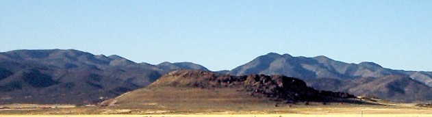 Extinct volcano crater near Fillmore, Utah.